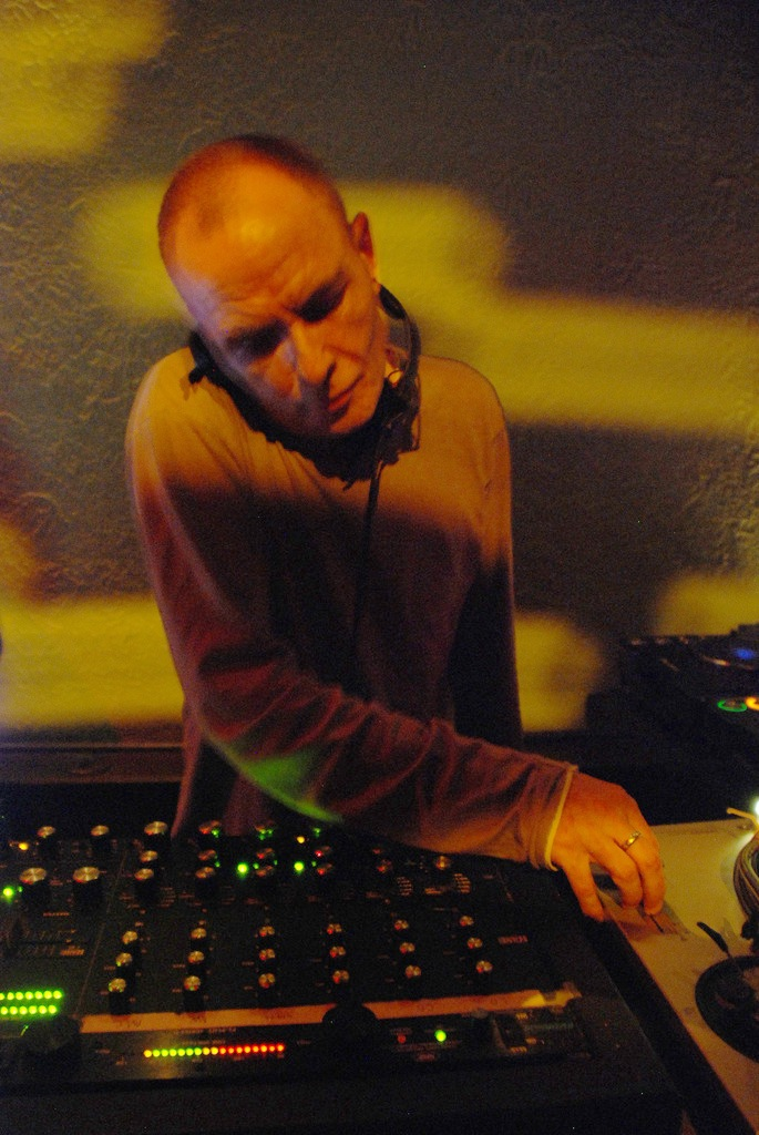 British DJ Eddie Richards performing at Suite B, Orlando, Florida